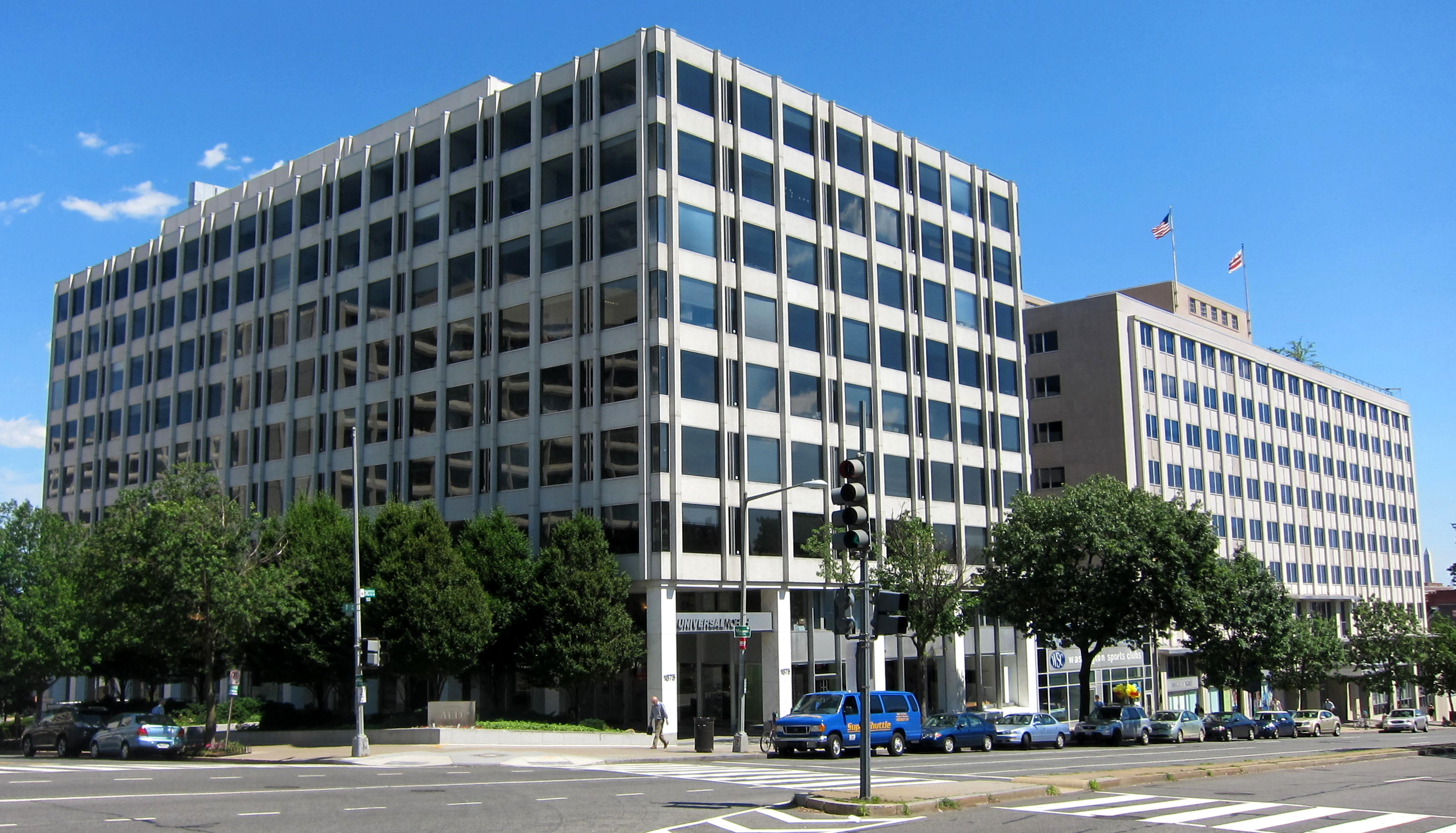 The Universal North Building (foreground; Universal South Building is in the background) located at 1875 Connecticut Avenue, N.W., in the Adams Morgan neighborhood of Washington, D.C. The modernist high-rise was built in 1962 to the designs of architect Edwin Weihe. Tenants include the American Cancer Society, Center for Law and Education, Center for Science in the Public Interest, Environmental Defense Fund, Food Research and Action Center, Mautner Project, National Association of Student Personnel Administrators, National Bank of Pakistan, National Partnership for Women & Families, Physicians for Social Responsibility, Population Reference Bureau, Progressive Victory, Rendon Group, Results for Development Institute, Society for International Development, and Womens Foreign Policy Group.